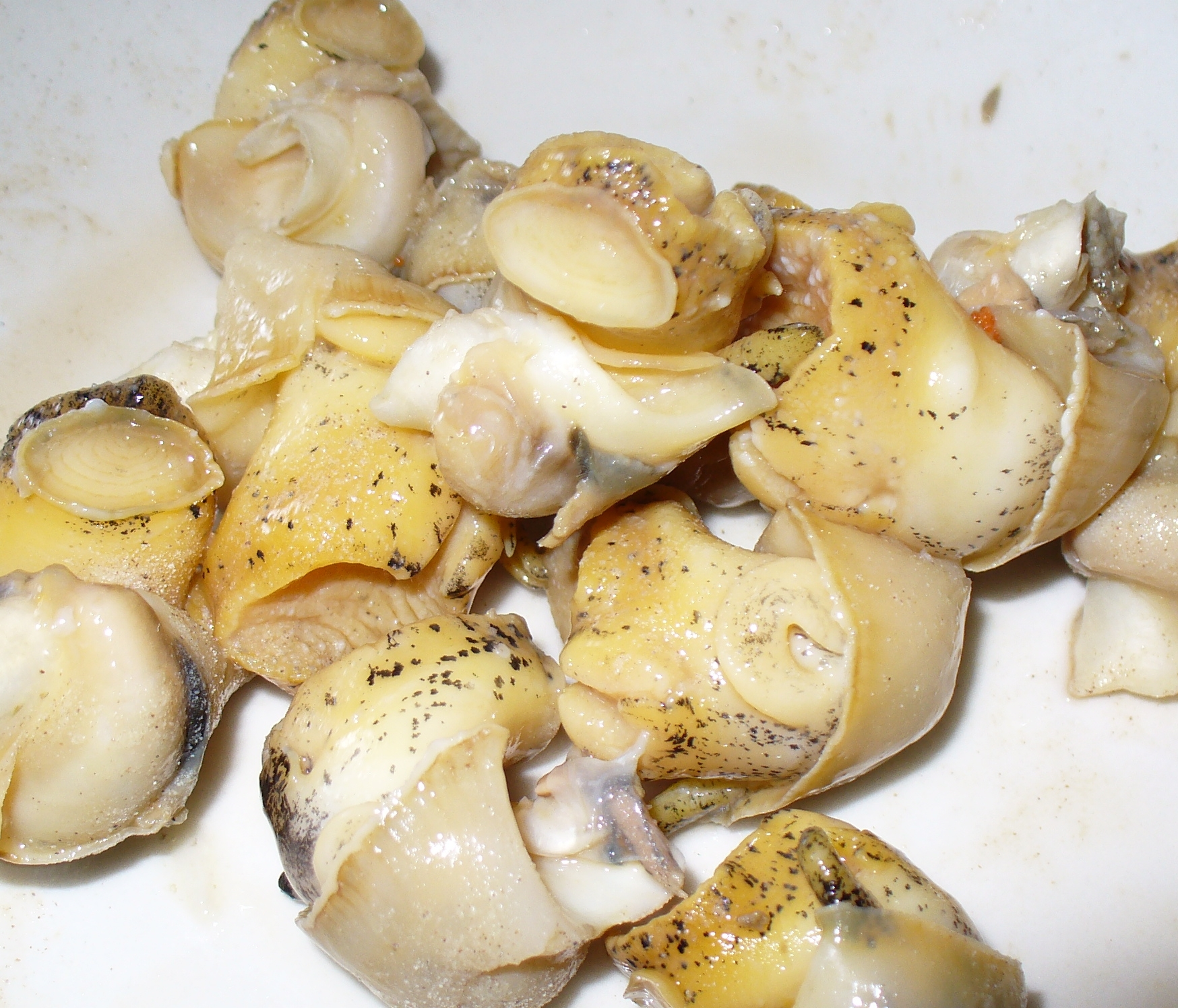 Cooked Whelks on a plate sprinkled with pepper. Eaten in London.